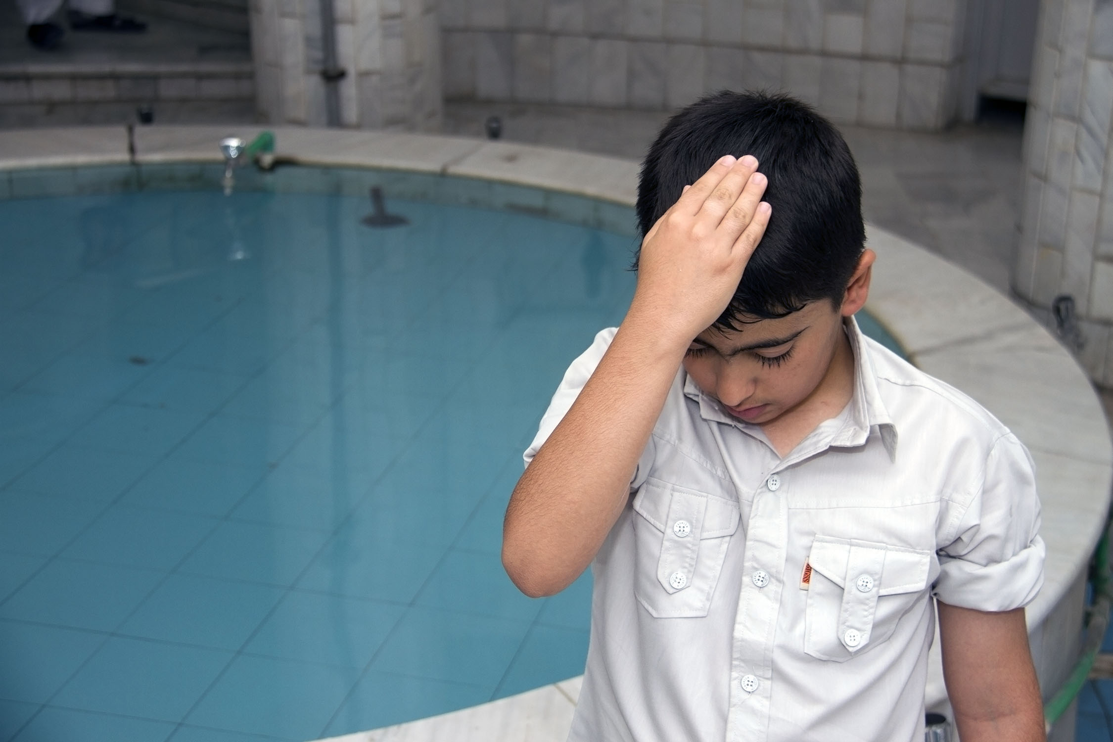 Biologically, a child (plural: children) is a human being between the stages of birth and puberty.